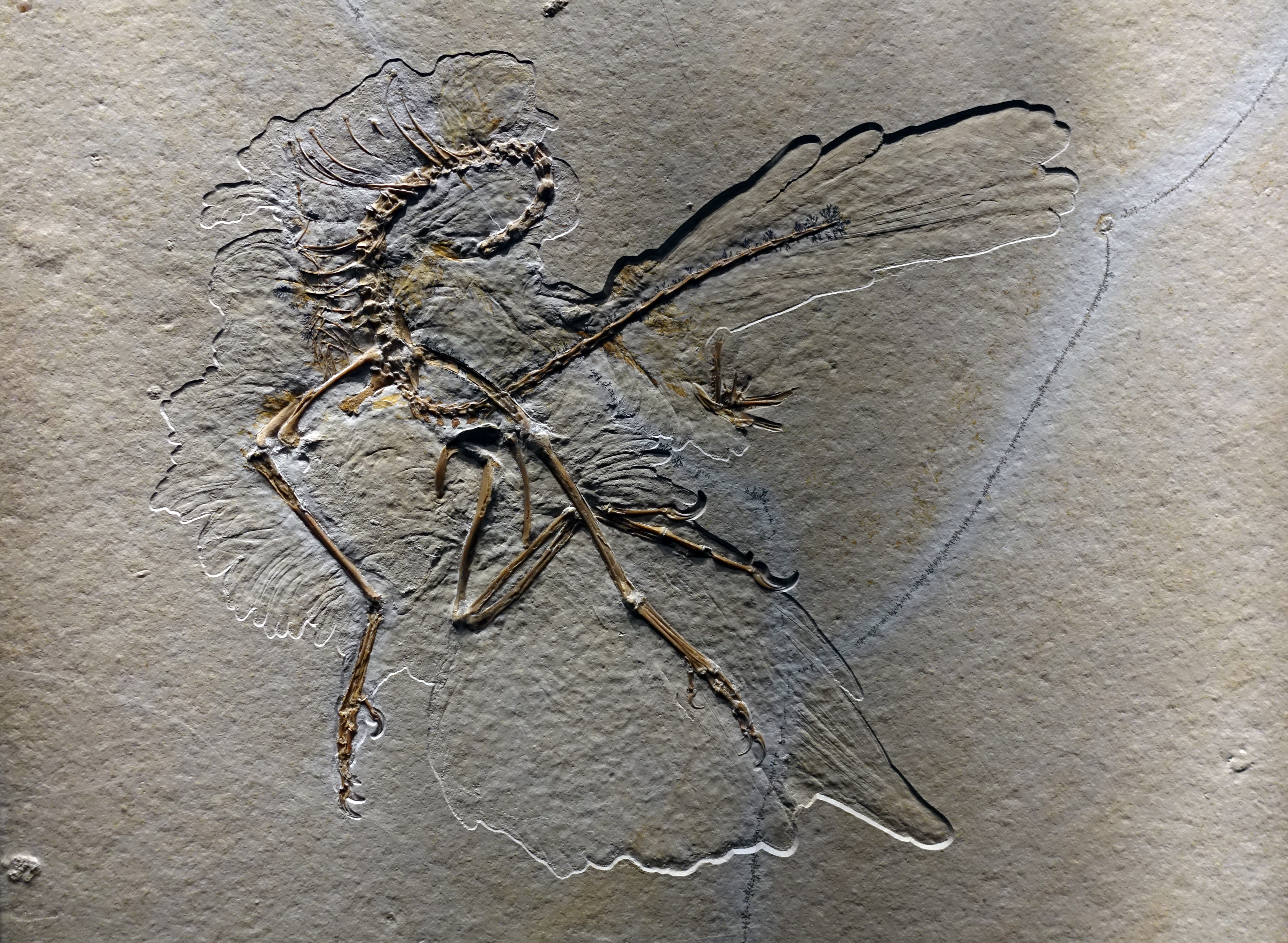 Oberrhein, Main 217 Frankfurt, Senckenberg-Museum